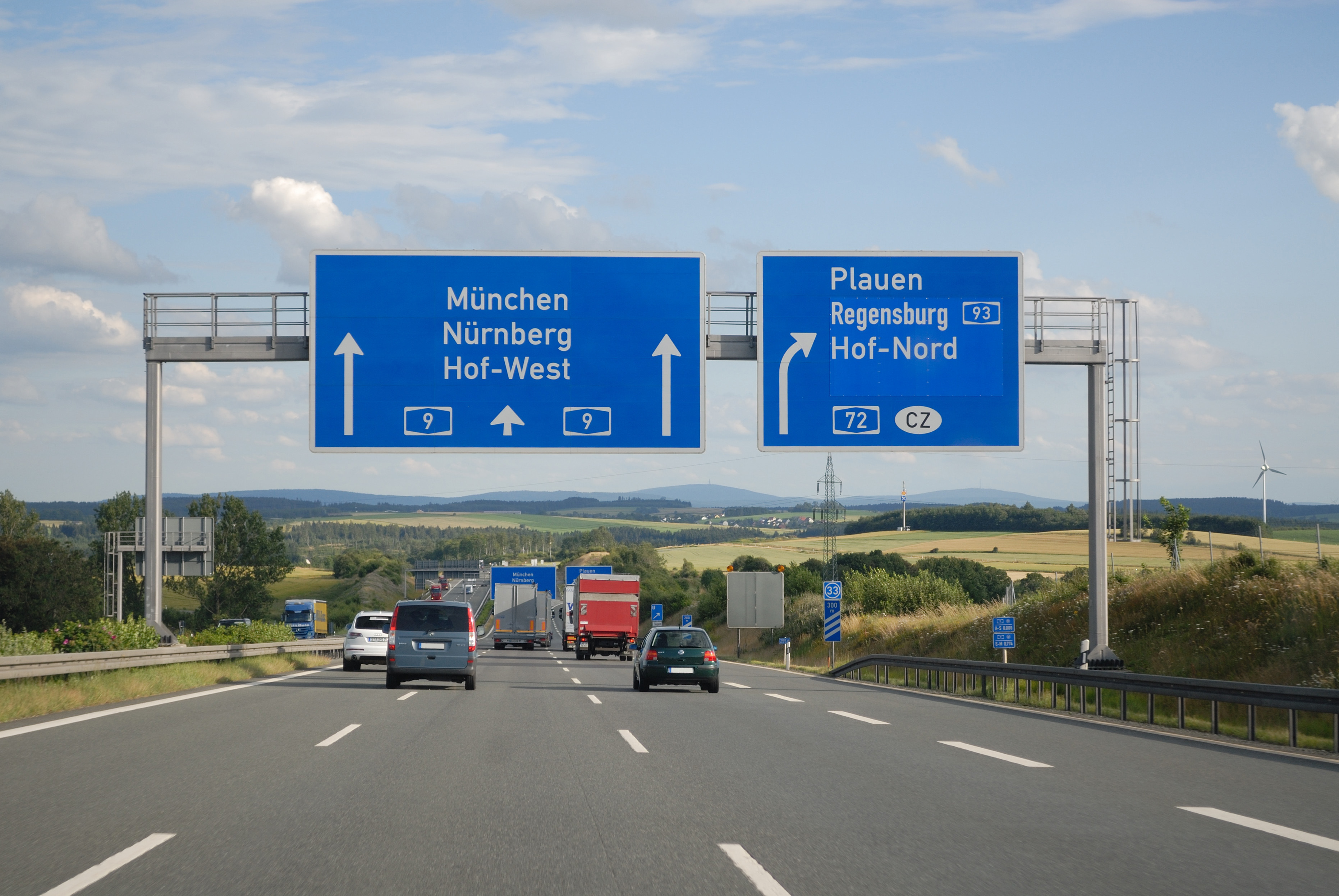 Northern view of Bayerisches Vogtland interchange near Selbitz. Road shot from A 9.